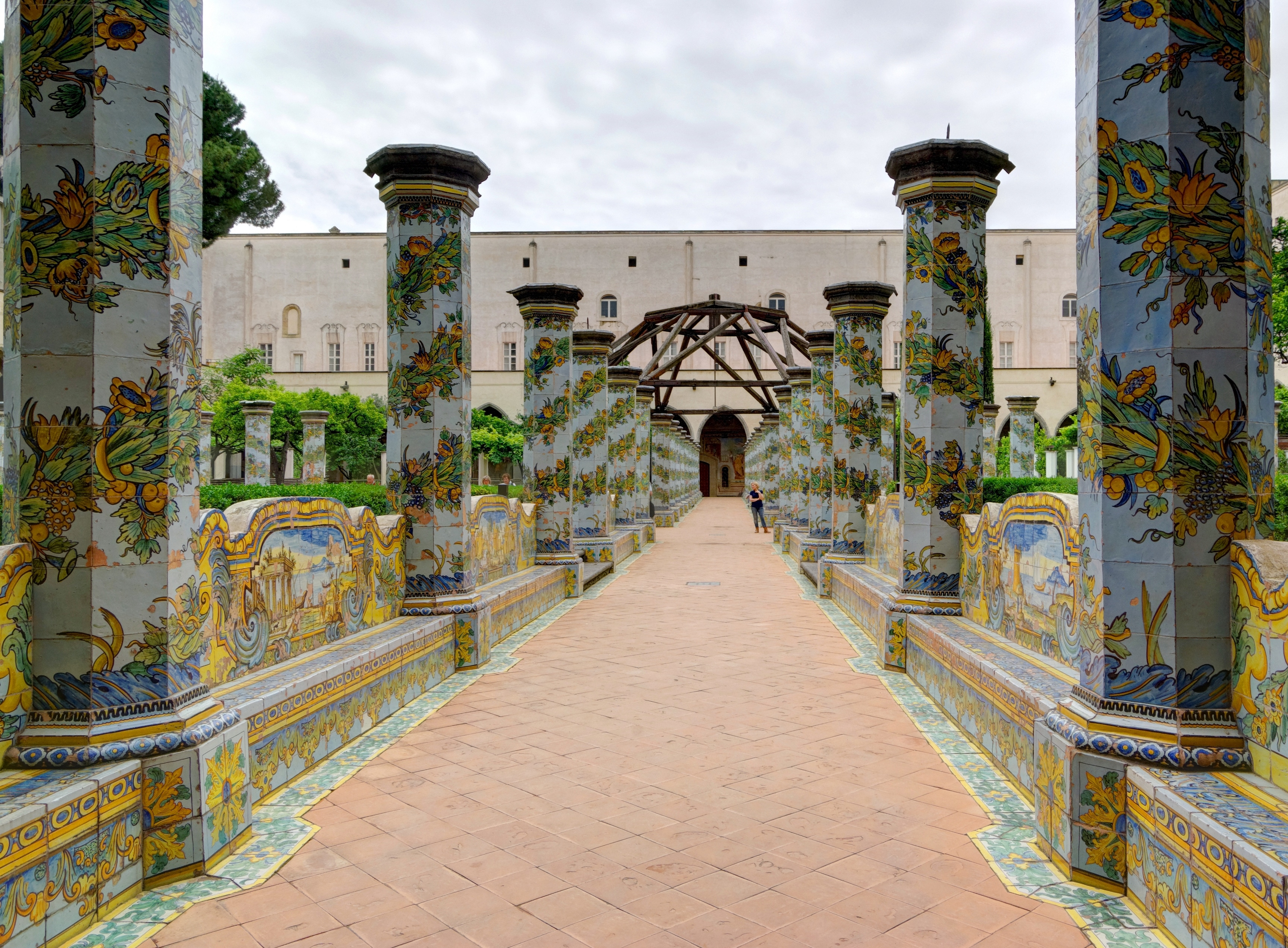 Naples, Chiostri di Santa Chiara